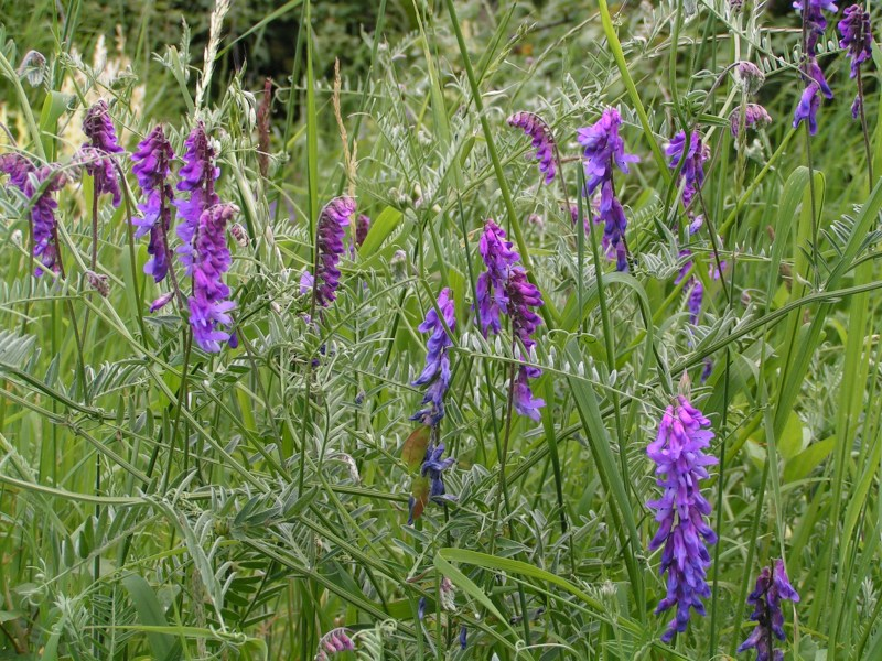 Tufted vetch (Vicia cracca). Photo by sannse, Walton-on-the-Naze, Essex, 19 June 2004